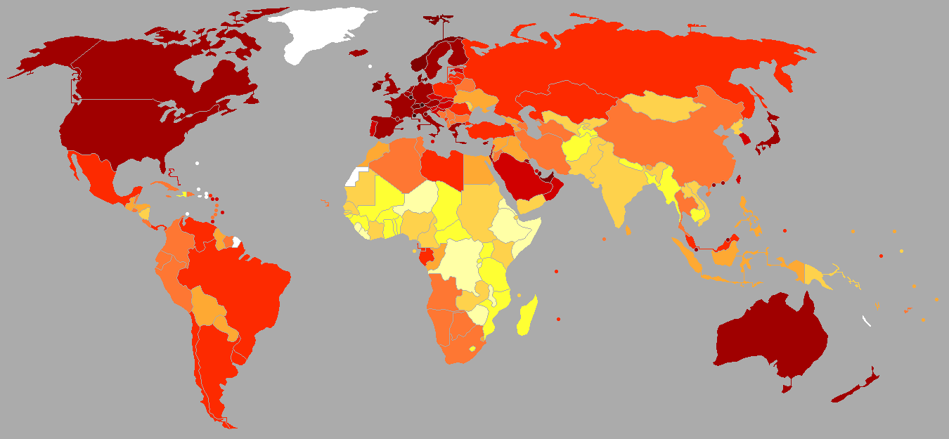 GDP per capita 2009